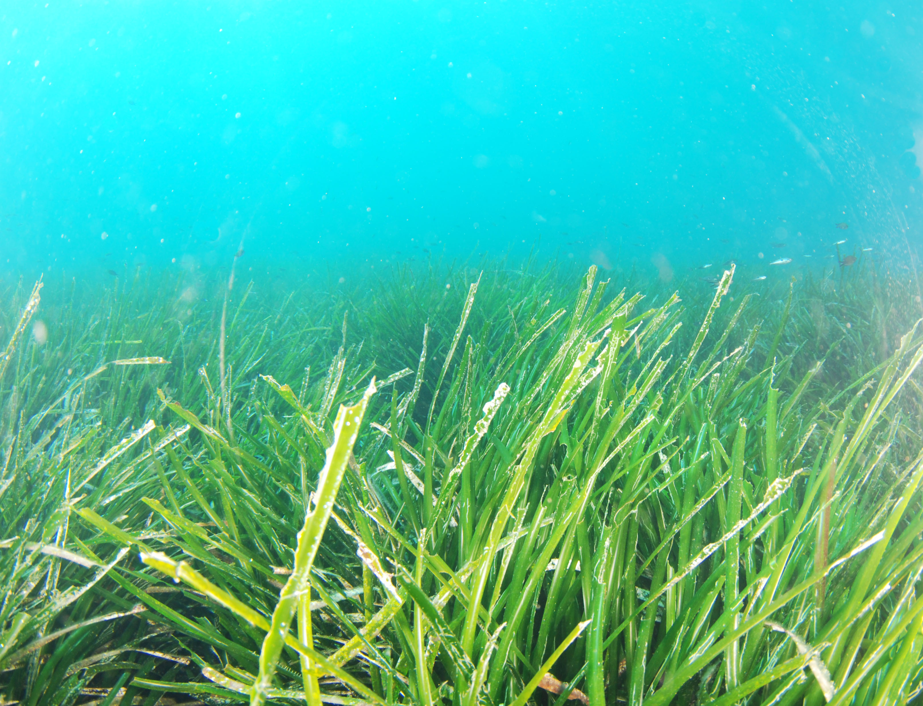 posidonia oceanica